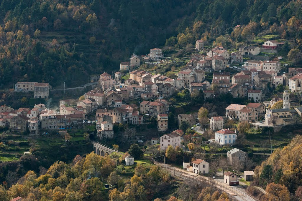 Corsu: Serraghju cù a ghjesgia San Michele